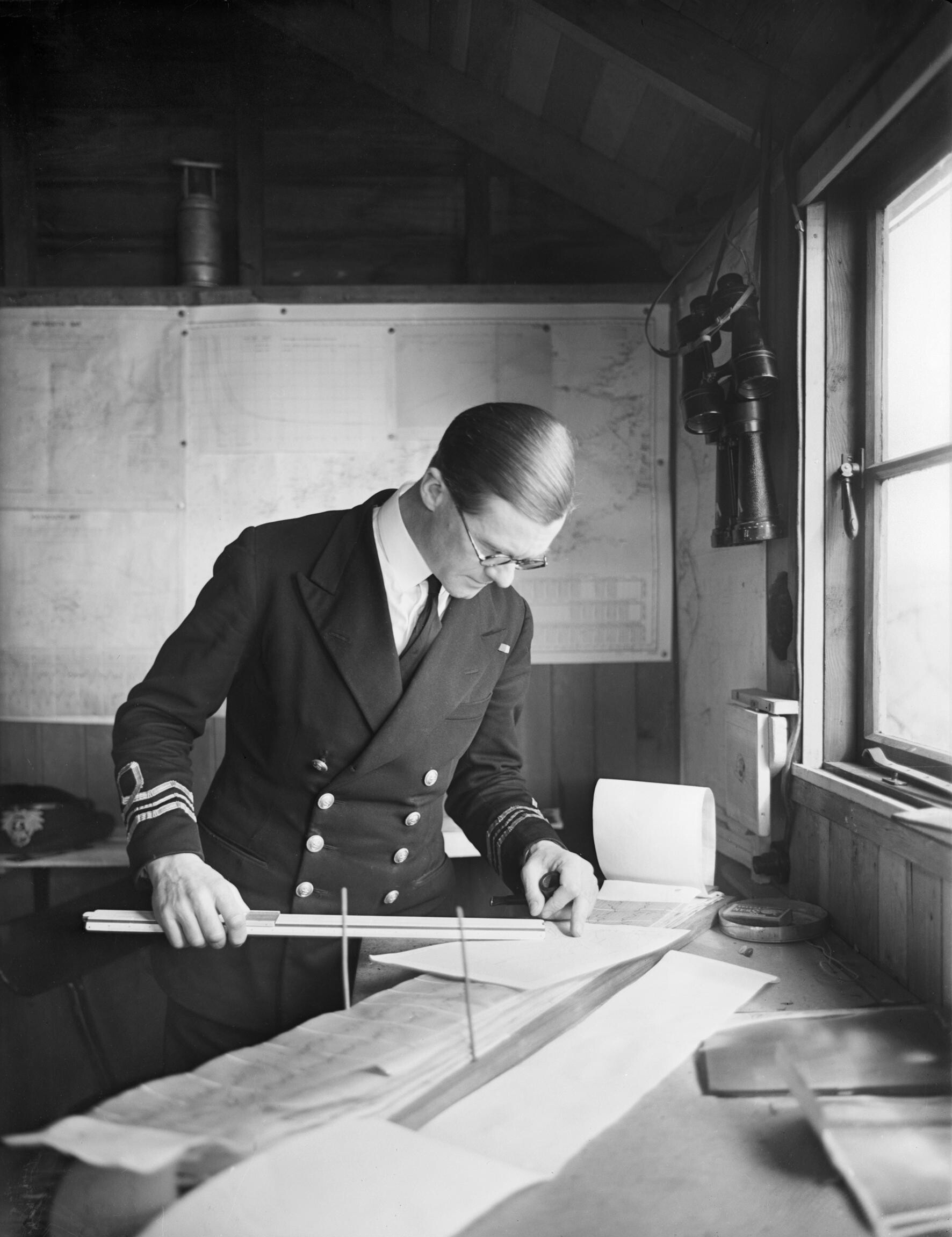 Lieutenant Commander R A Lochner, one of the designers of the Mulberry artificial harbour, working at Short Lake House, Weymouth, April 1944. Mulberry Harbour: Lieutenant Commander R A Lochner, RNVR, who originally proposed the floating breakwater (Bombardon) and led the team that developed it, at work on graphs which record the amount of swell, at the "Hut" (Short Lake House, Weymouth) where the scientists connected with the experiment worked and lived for two months.